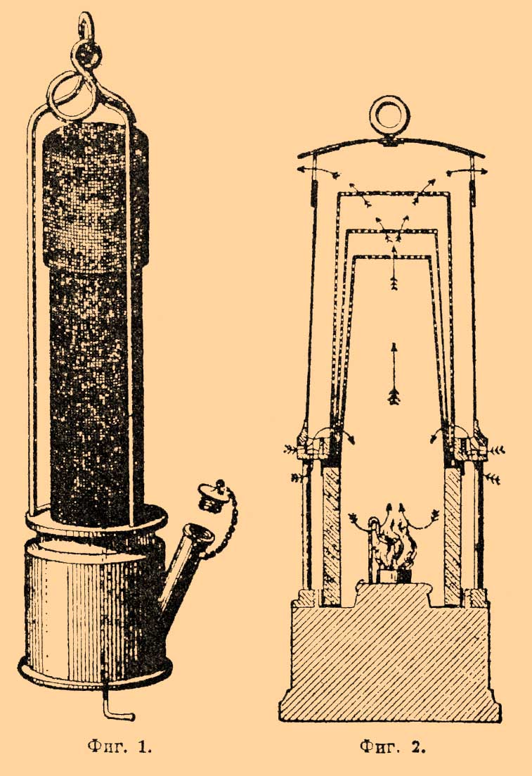 Illustration from Brockhaus and Efron Encyclopedic Dictionary (1890—1907)